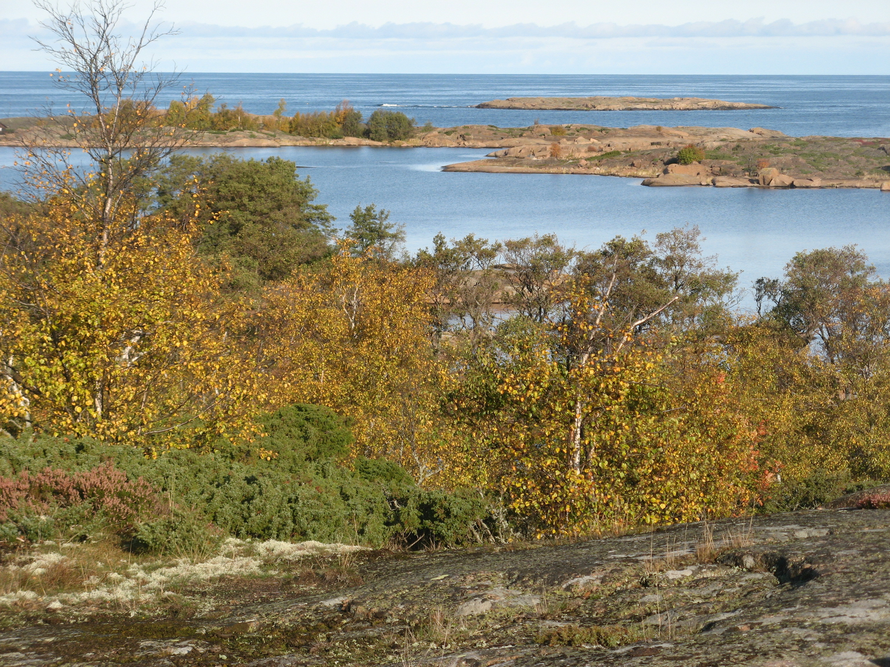 View from Väderskär, known as Stormskäret in Anni Blomqvist's books, Vårdö, Åland, Finland